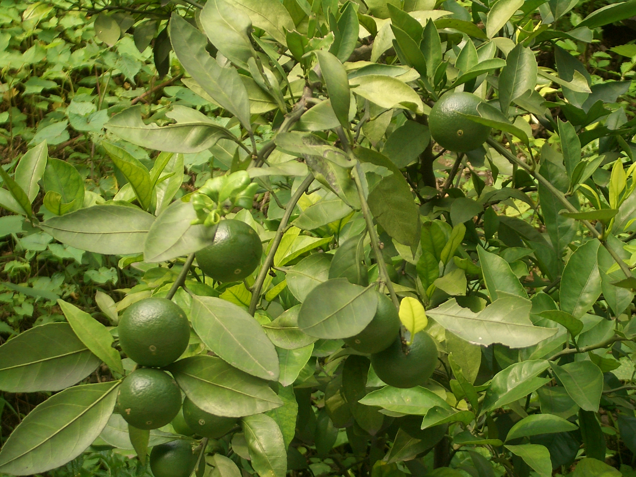 Pomelos or grapefruits ripening in a garden near Hubei route S334 west of Liantuo village (Yiling District, between Yichang and Sandouping)